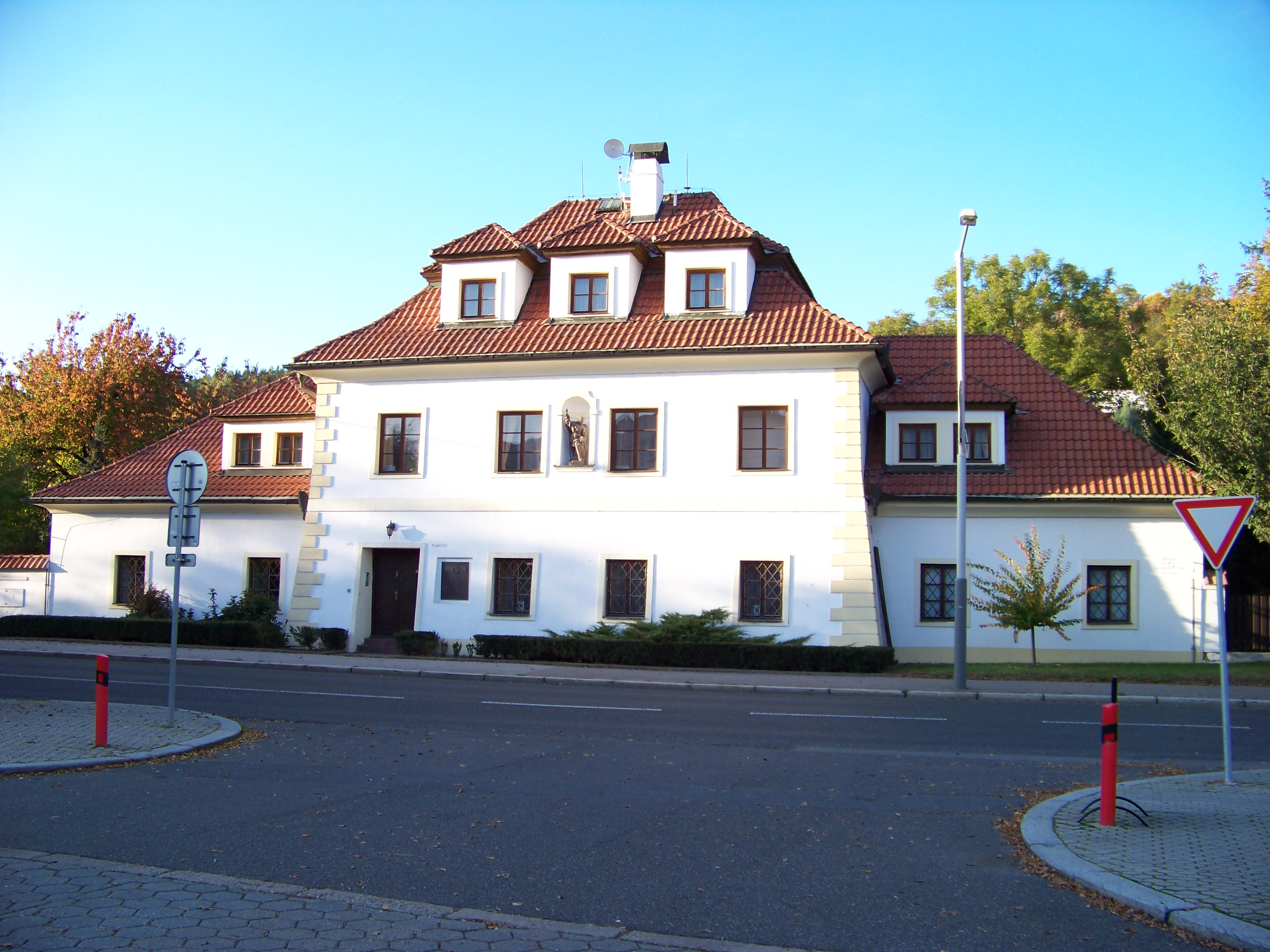 Prague-Troja, Czech Republic. Trojská 69/112, Kazanka house.